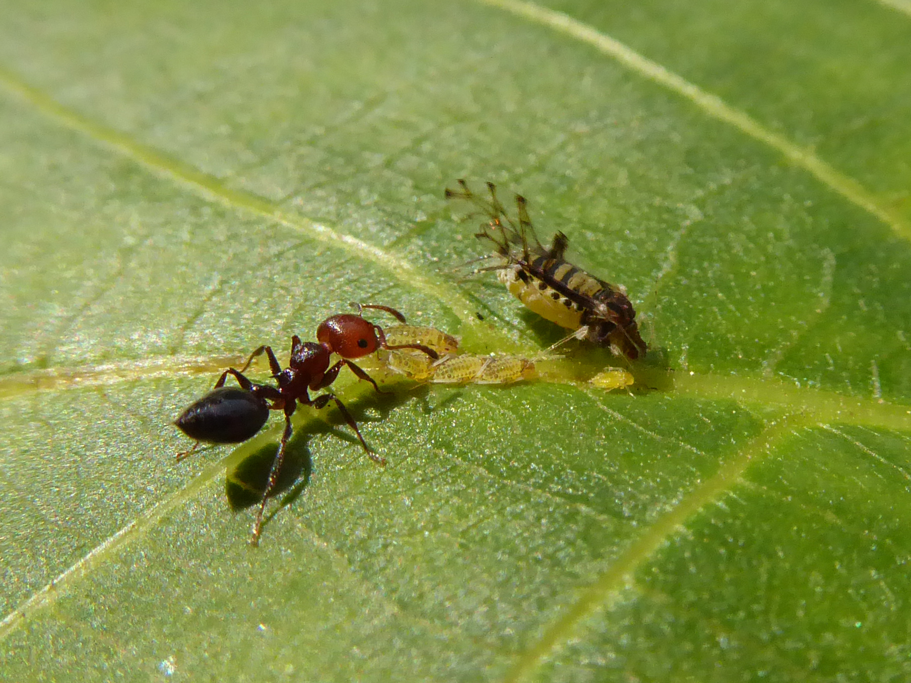 Crematogaster scutellaris ants tending to Panaphis juglandis aphids on a walnut leaf in Piazzo (Segonzano, Trentino, Italy)